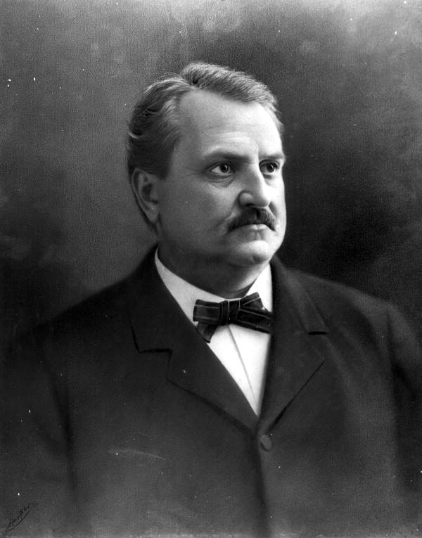 Florida State Supreme Court Chief Justice 1894-1896